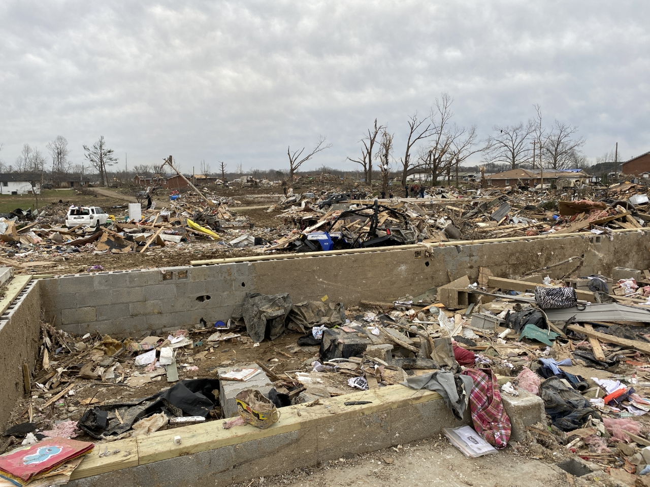 EF4 damage to homes along North McBroom Chapel Road in the western part of Cookeville, Tennessee.